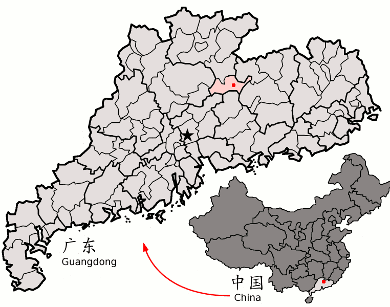 Location of Xinfeng city (red) and Xinfeng county (pink) within Guangdong province of China